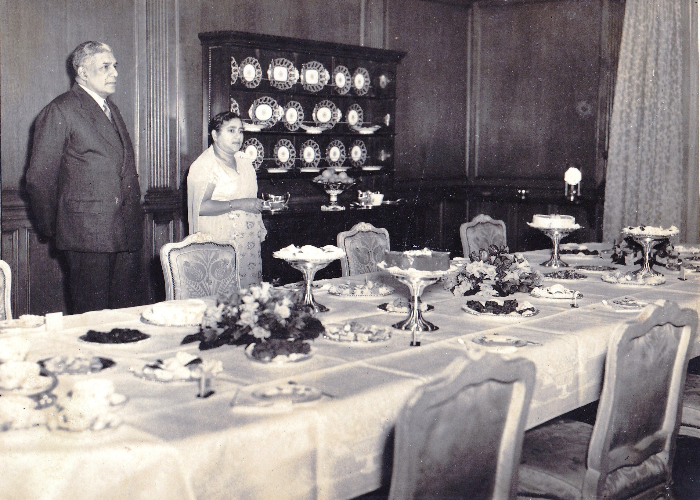 Picture of Sir Edwin & Lady Leela Wijeyeratne